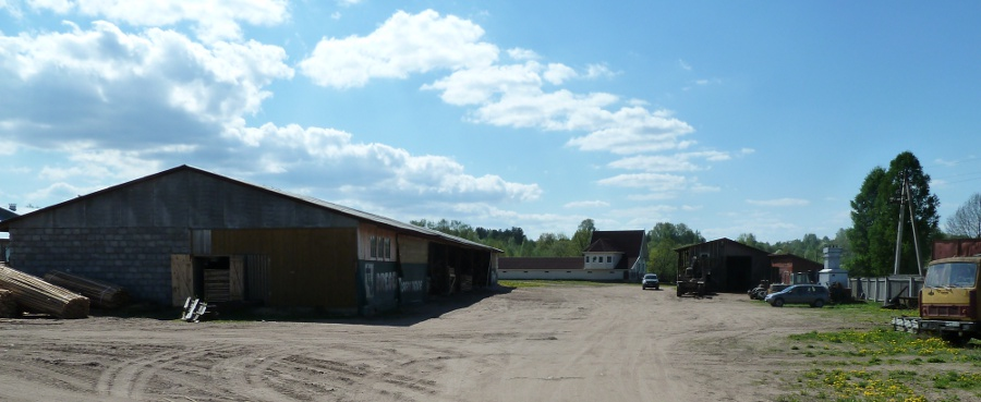 Sawmill in Cherneya